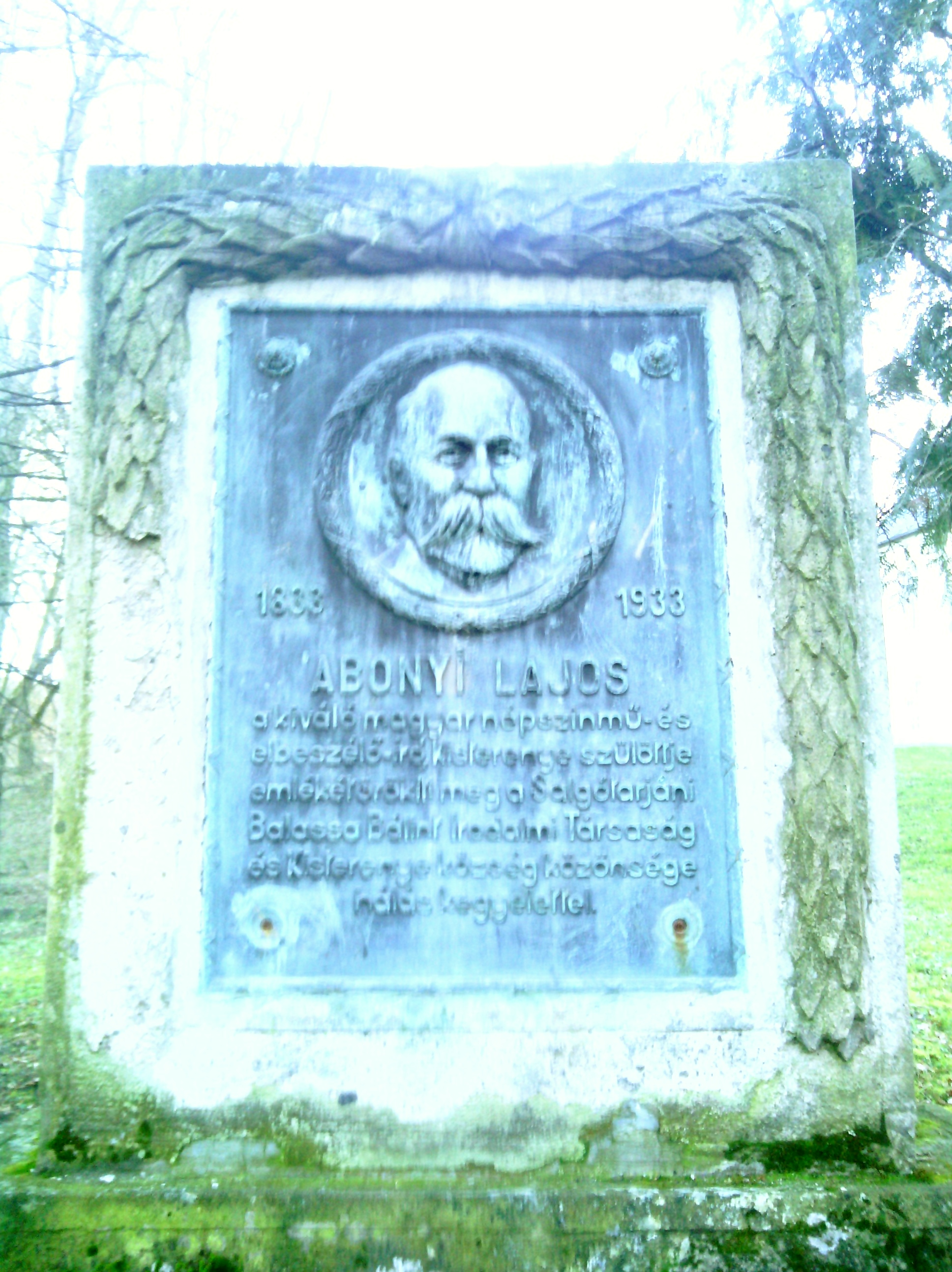 Relief of Lajos Abonyi by Károly Bóna Kovács in Gyürky-Solymossy Castle Park, Kisterenye